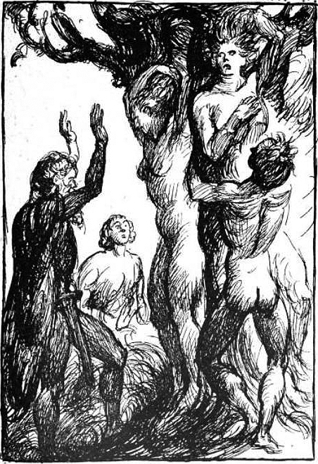 A depiction of Ask and Embla (1919) by Robert Engels. Title not given in work.